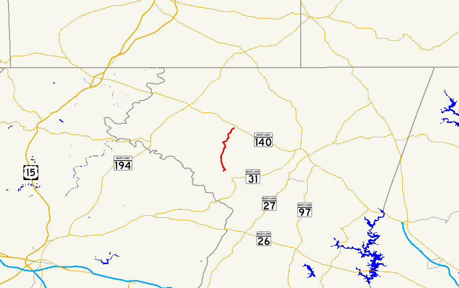 Map of Maryland Route 84